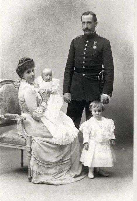 Prince Carlos of Bourbon-Two Sicilies with his first wife Infanta Mercedes and their children